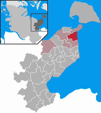 This map shows the area of the Gemeinde (municipality) Neukirchen in the Kreis (district) Ostholstein, Schleswig-Holstein, Germany.